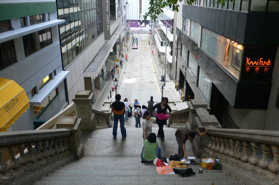 Duddell Street Steps, facing Queen's Road Central